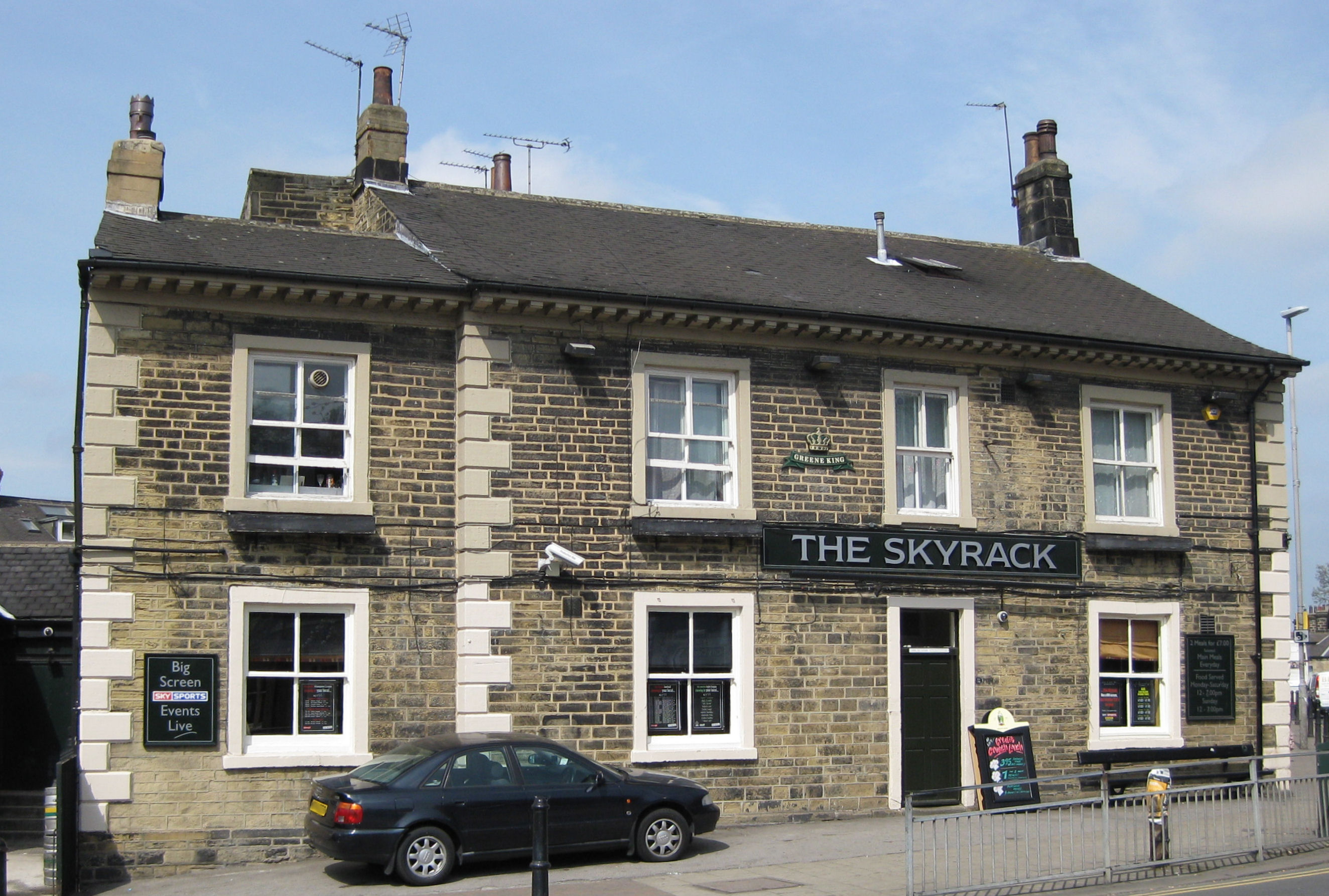 The Skyrack public house, 2 St Michael’s Road,Headingley, Leeds, LS6 3AW